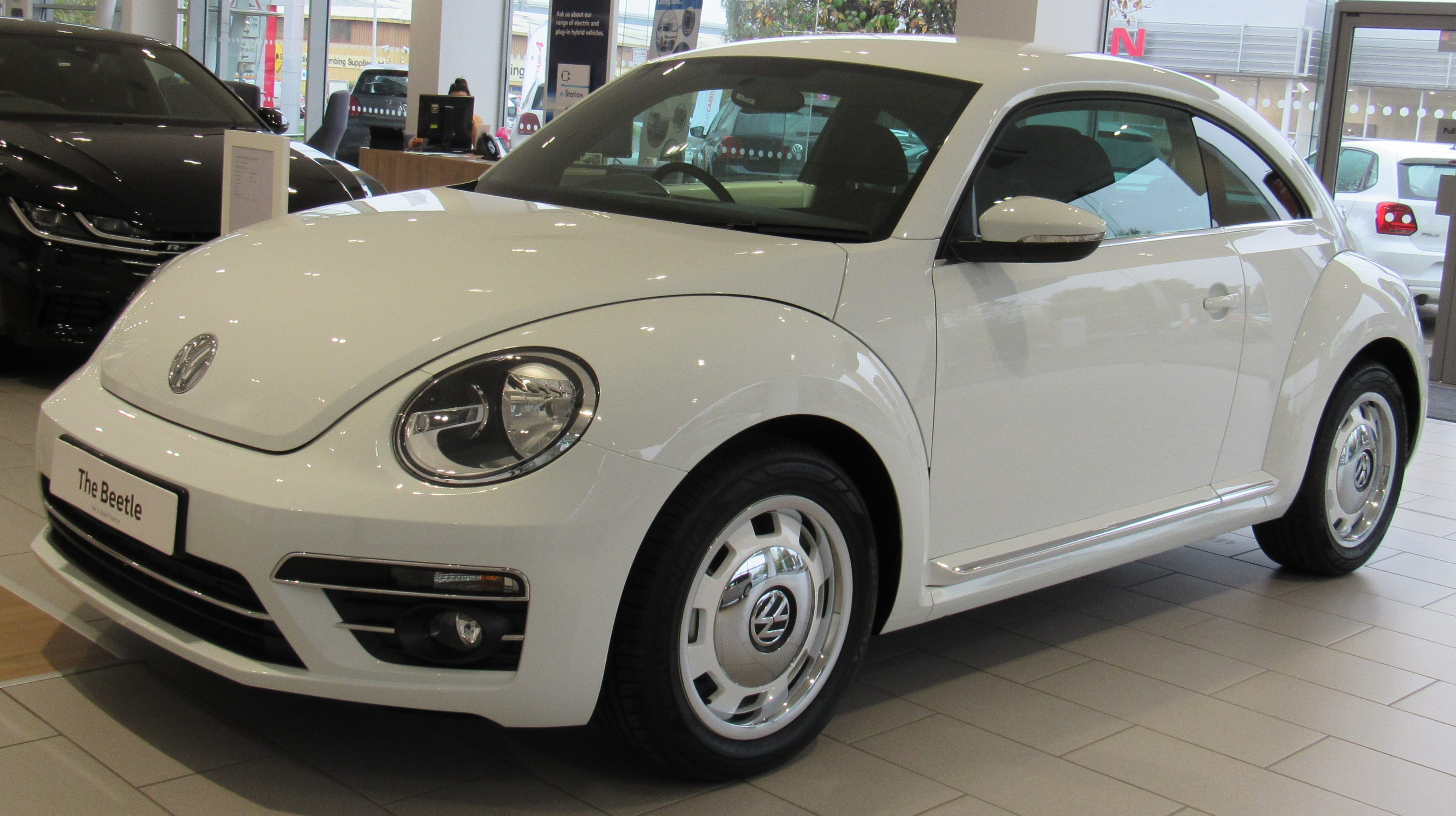 2017 Volkswagen Beetle Design TSi 1.4 Front Taken in Listers Volkswagen, Leamington Spa